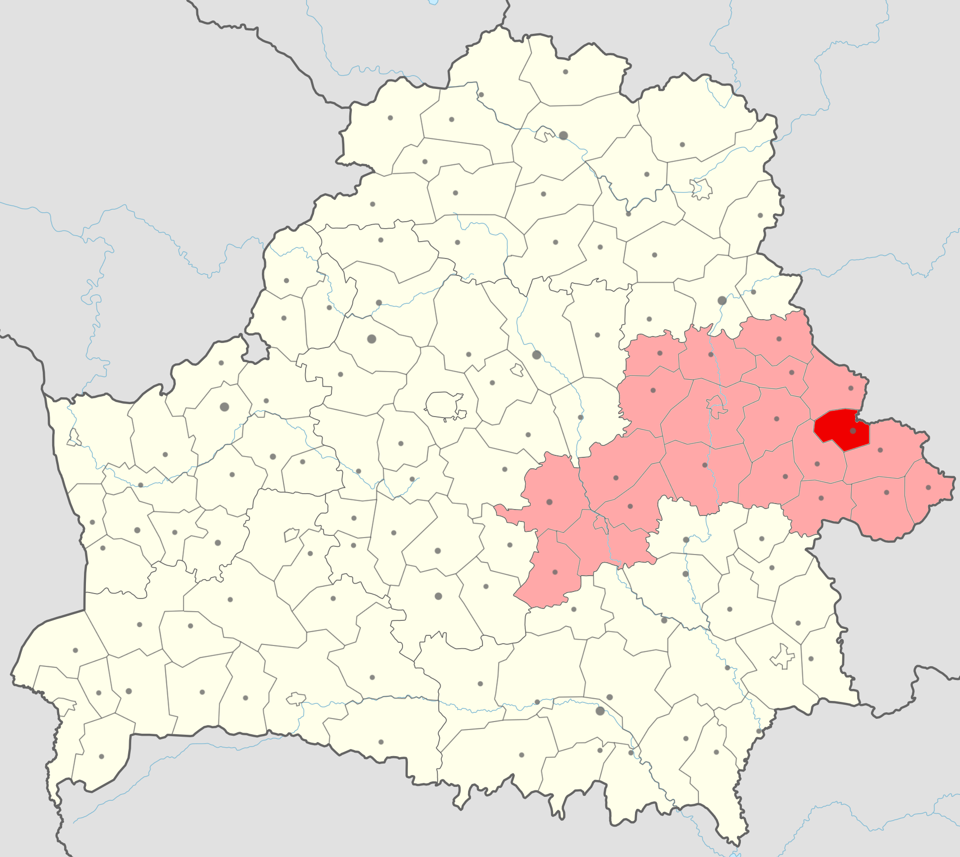 Location of Kryčaŭski rajon (red) in Mahilioŭskaja voblasć (light red) in Belarus.